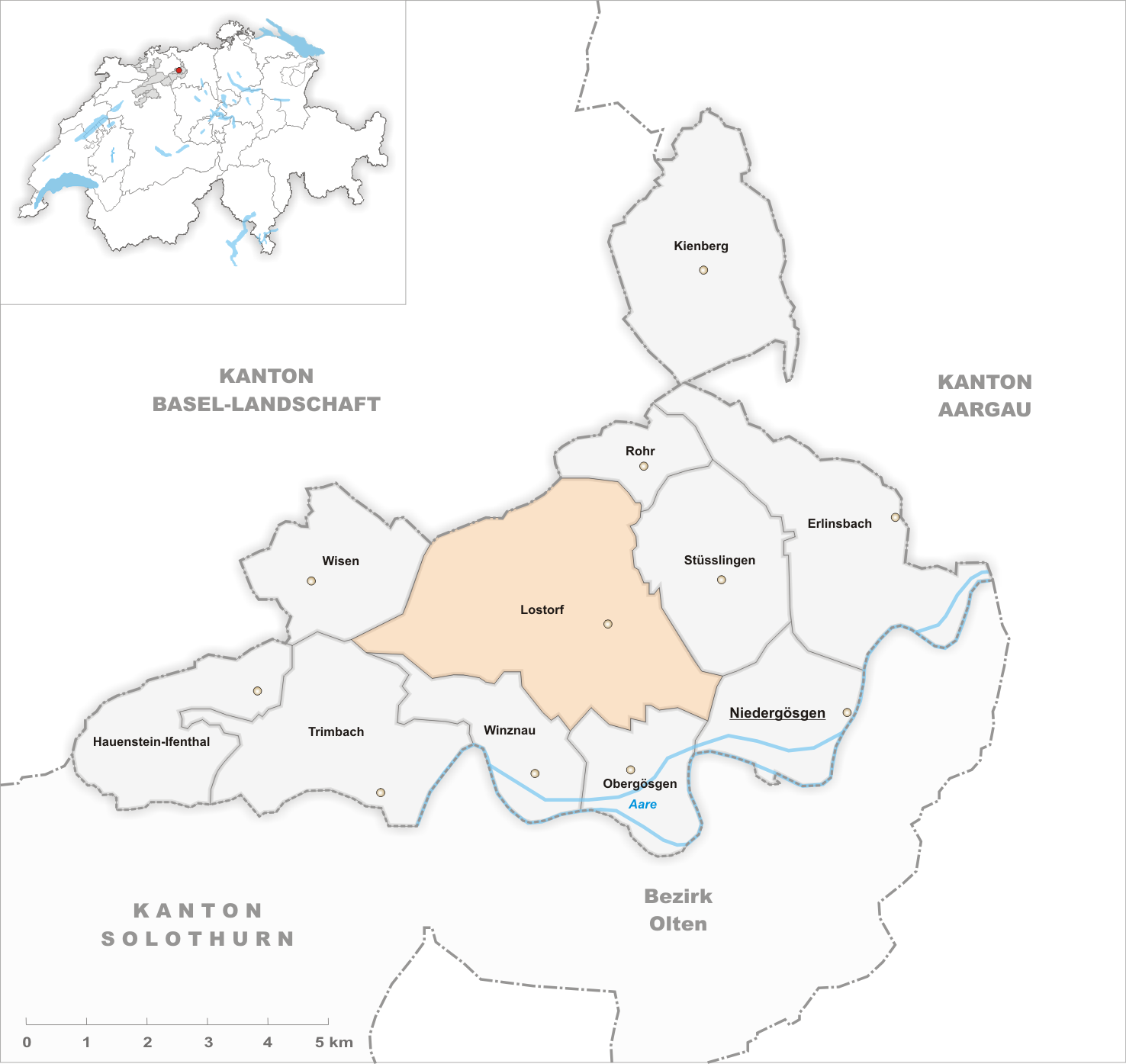 Municipality Lostorf